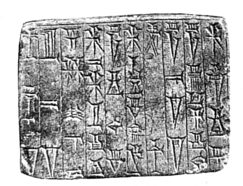 Tablet of Sin-Gashid of Uruk